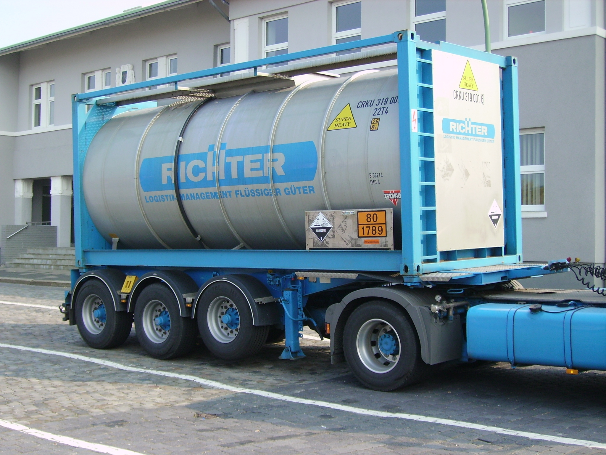 Dangerous good (hydrochloric acid/acidum hydrochloricum) being transported by a lorry